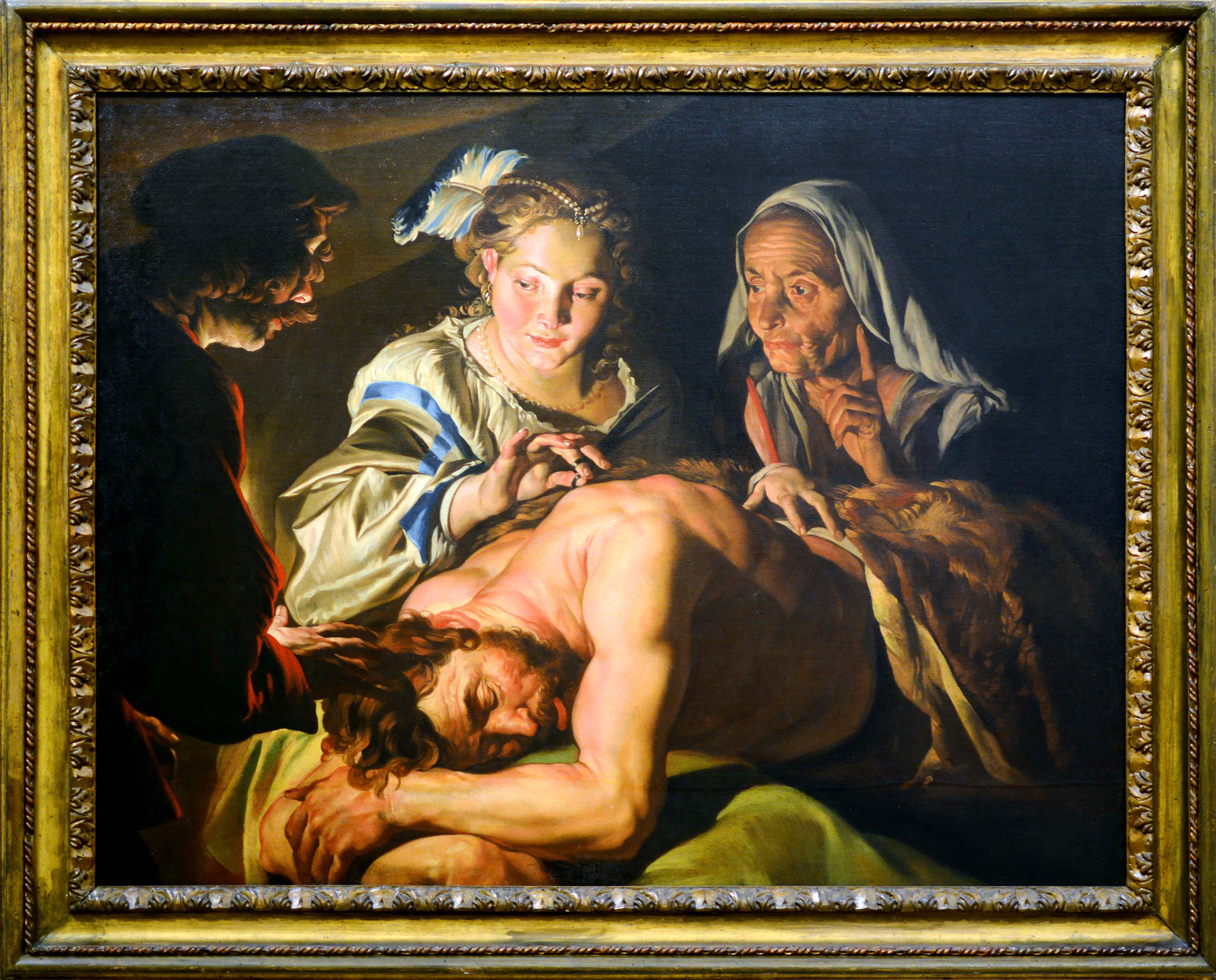 Sansone and Dalila by Matthias Stom